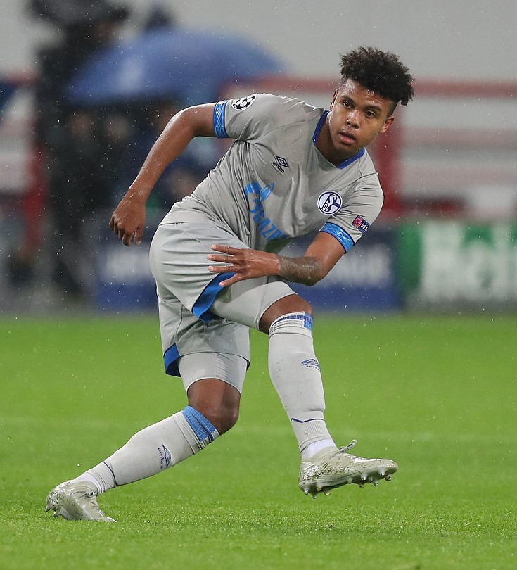 Weston McKennie